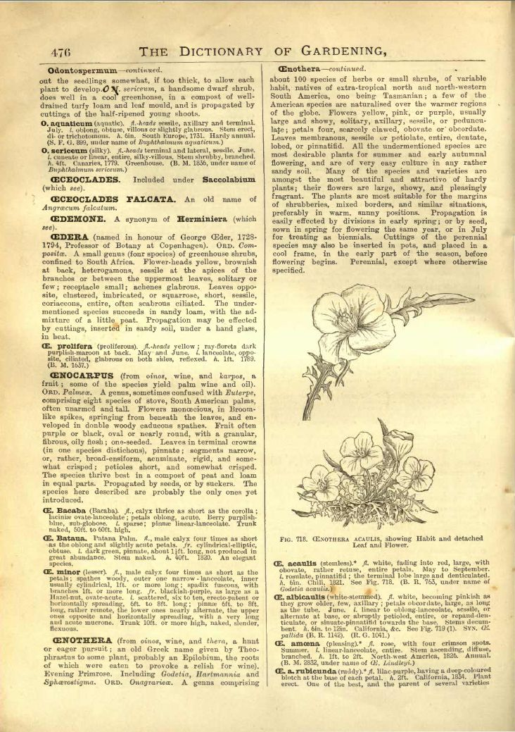 Page from "The Illustrated Dictionary of Gardening", edited by George Nicholson (1847-1908)